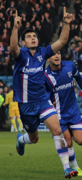 John Egan, football player of Gillingham FC, celebrating a goal in a match versus Port Vale on 29 November 2014.